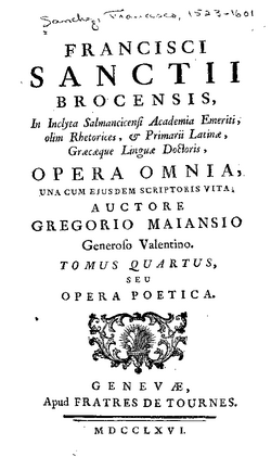 Poetical works, 1766, Francisco Sánchez de las Brozas, Gregorio Mayans y Siscar, Francisco Sánchez de las Brozas (1523-1601)